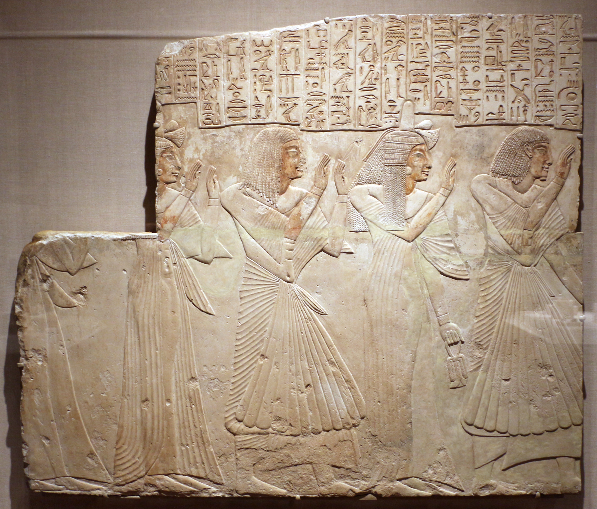 Egyptian antiquities in the Cleveland Museum of Art